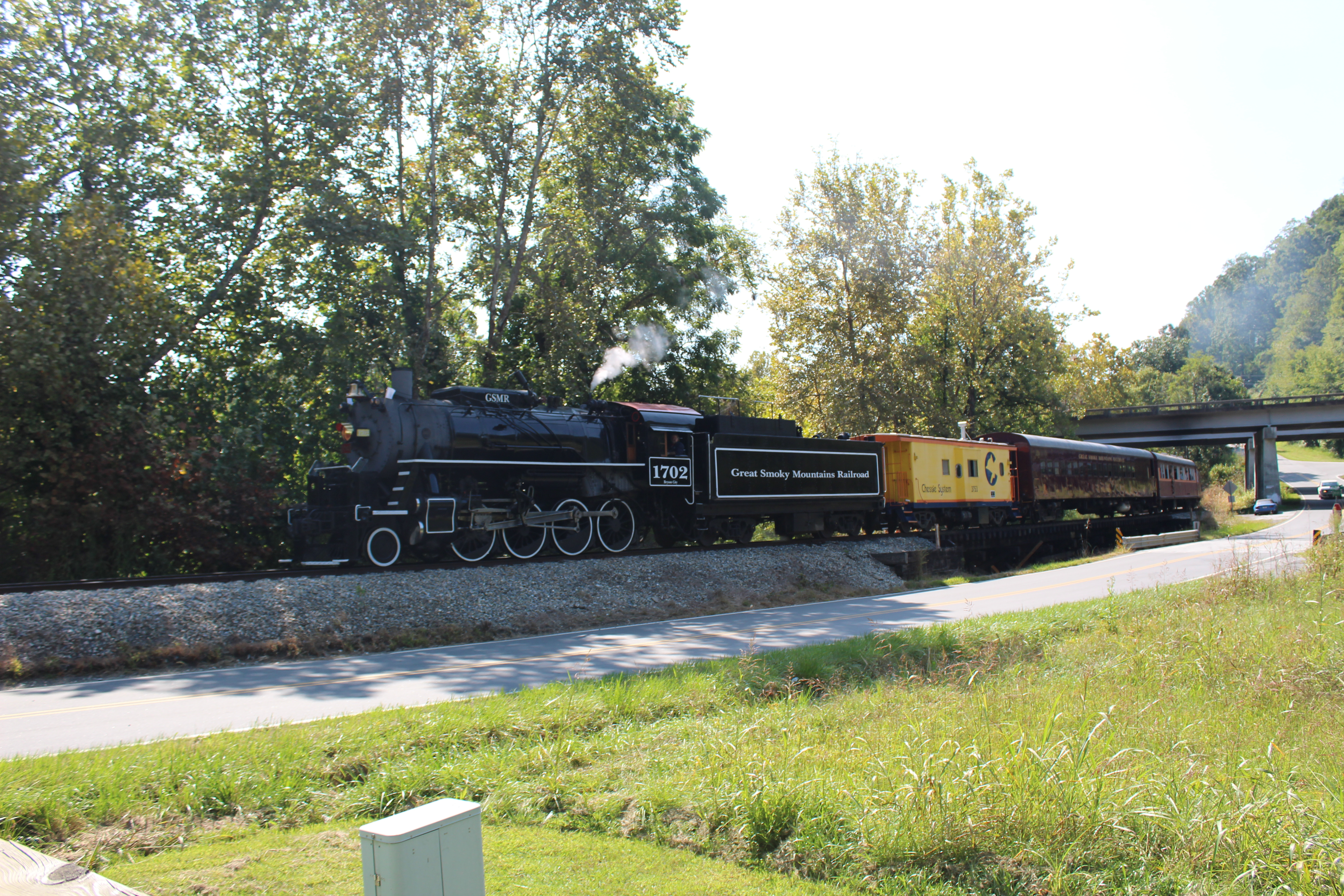 Great Smoky Mountains Railroad 2-8-0 #1702 leads a photo special a few miles East of Whittier, NC.